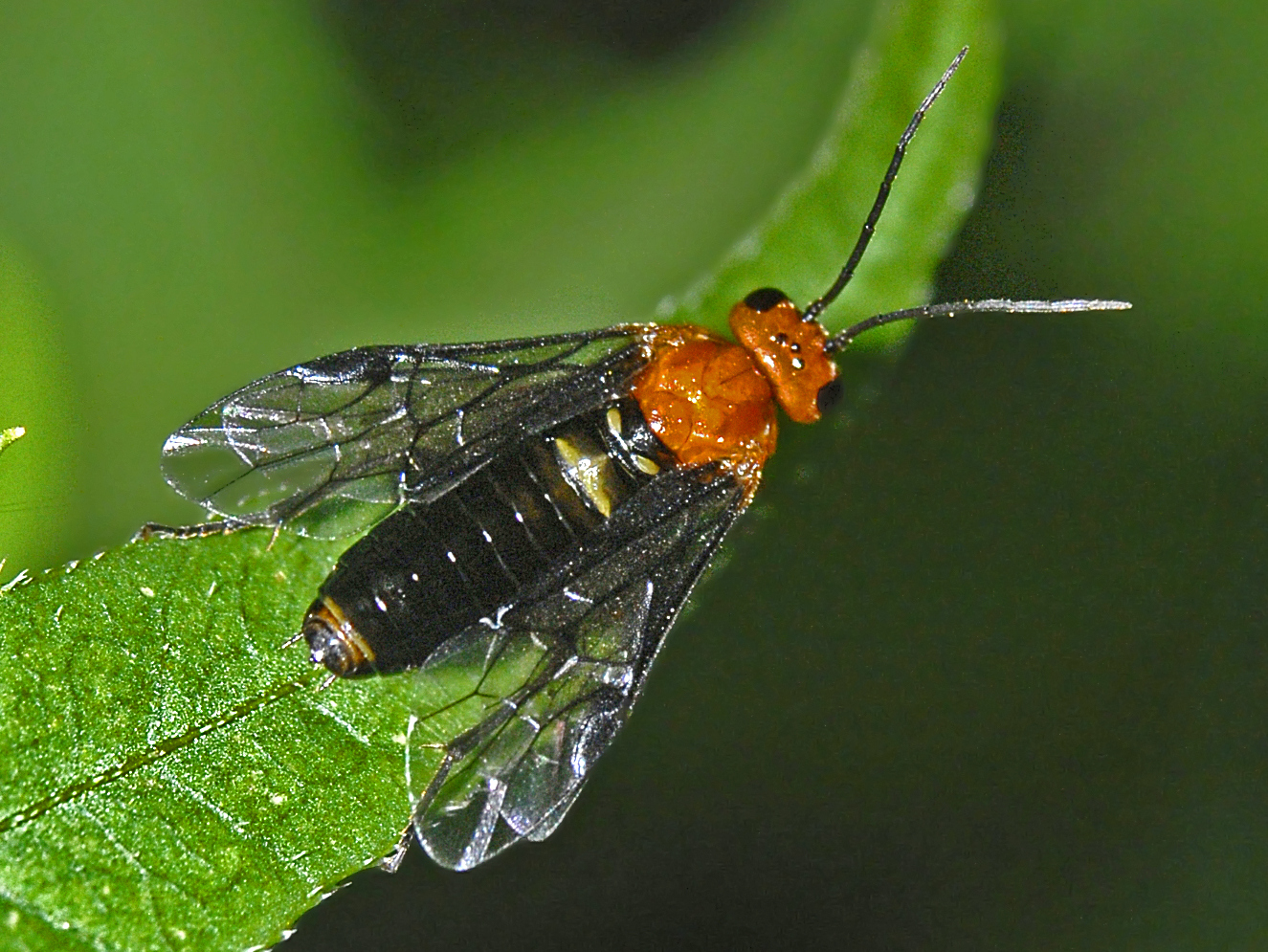 Hemichroa australis. Campora di Serra Ricco, Genova, Italy